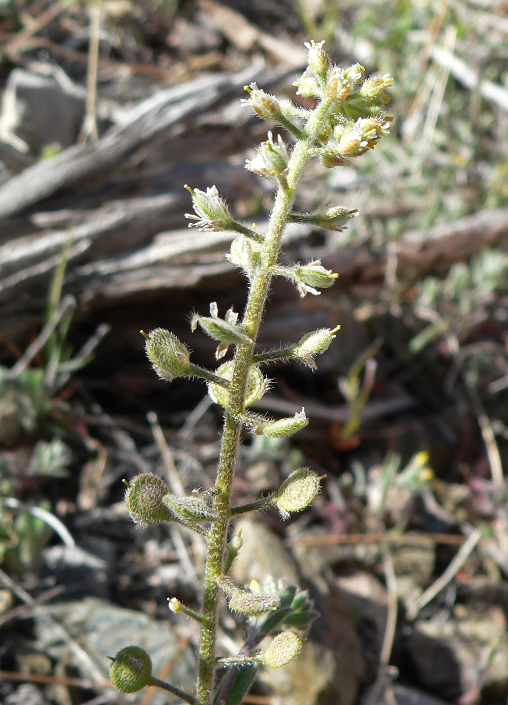 Alyssum simplex at Willow Spring of Willow Creek, Cold Creek area, Spring Mountains, southern Nevada (elev. about 1800 m)